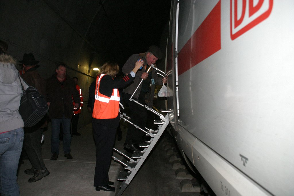 During a large-scale rescue practice on Günterscheid Tunnel, a train attendent helps a man out of the ICE 3 train.